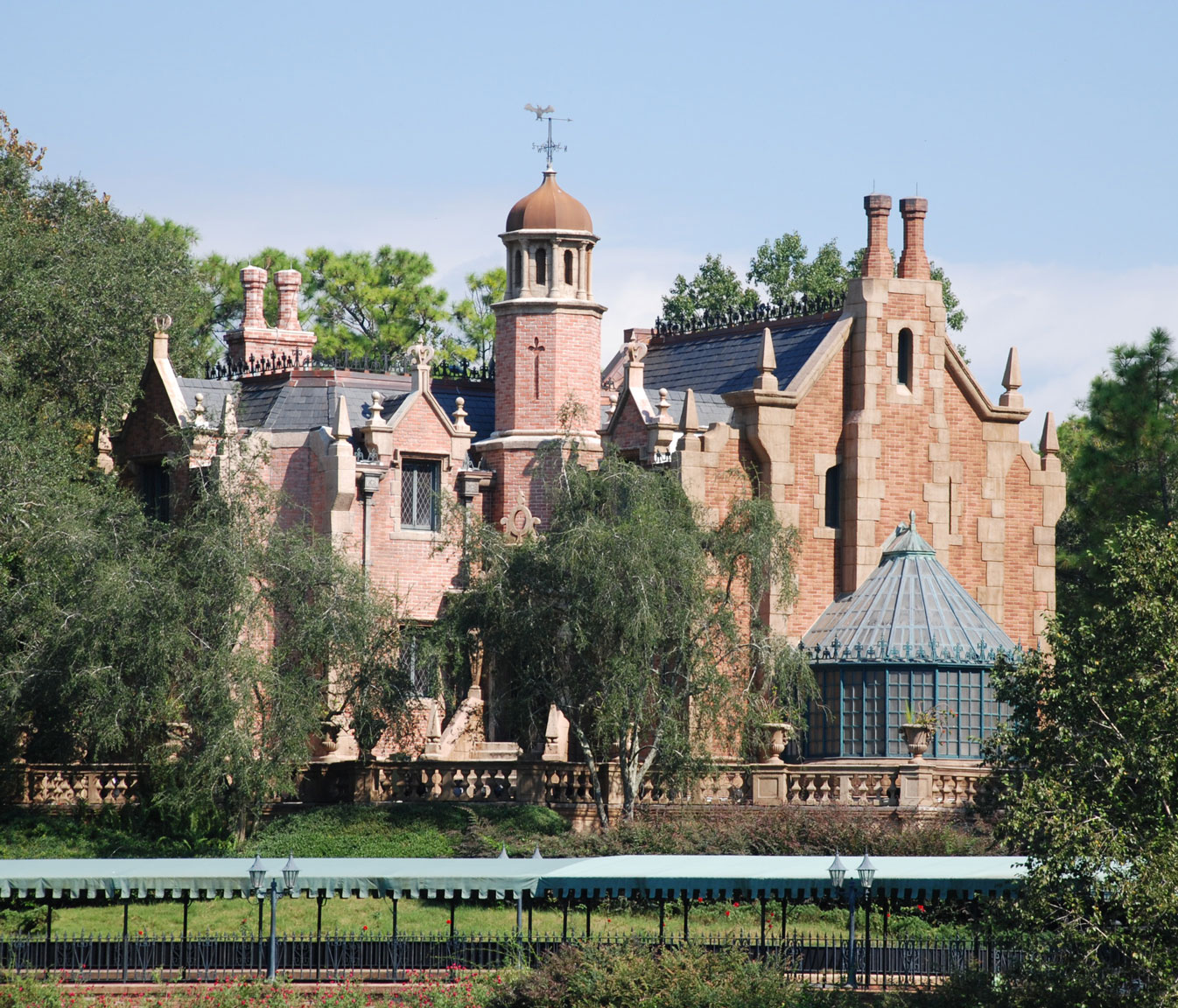 Haunted Mansion - Walt Disney World